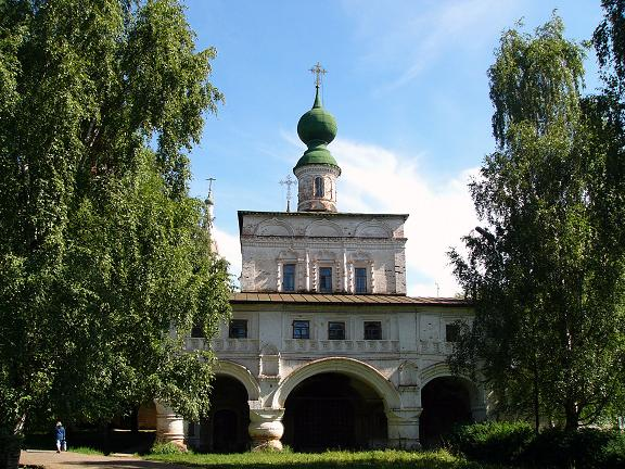 Veliky Ustyug. Mikhailo-Arkhangelsky Monastery